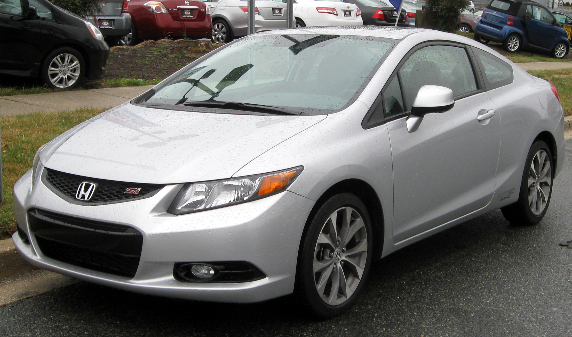 2012 Honda Civic Si photographed in Silver Spring, Maryland, USA.